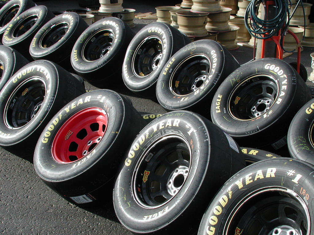 Lots and lots of tires